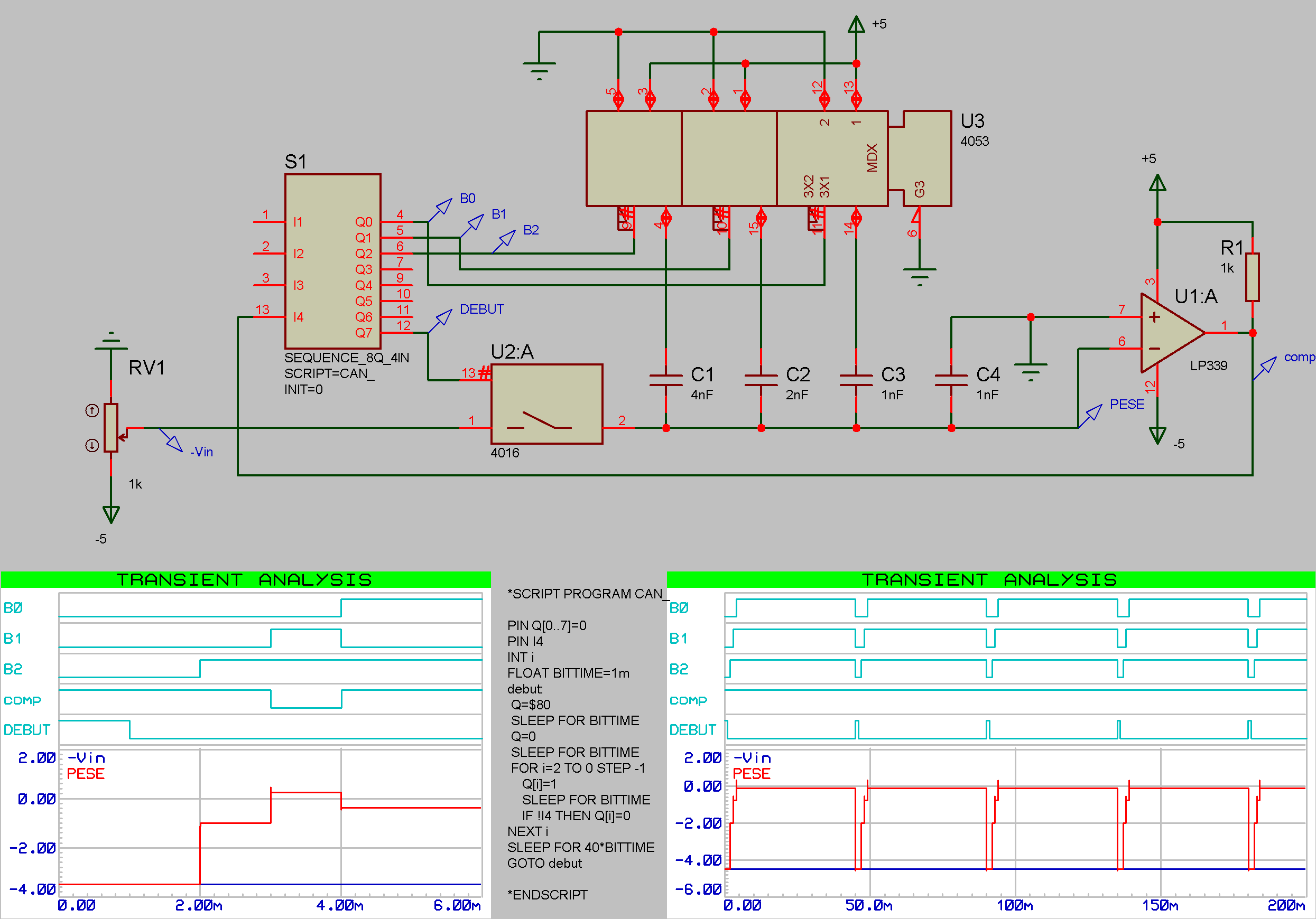 simulation of a capacitive ADC converter